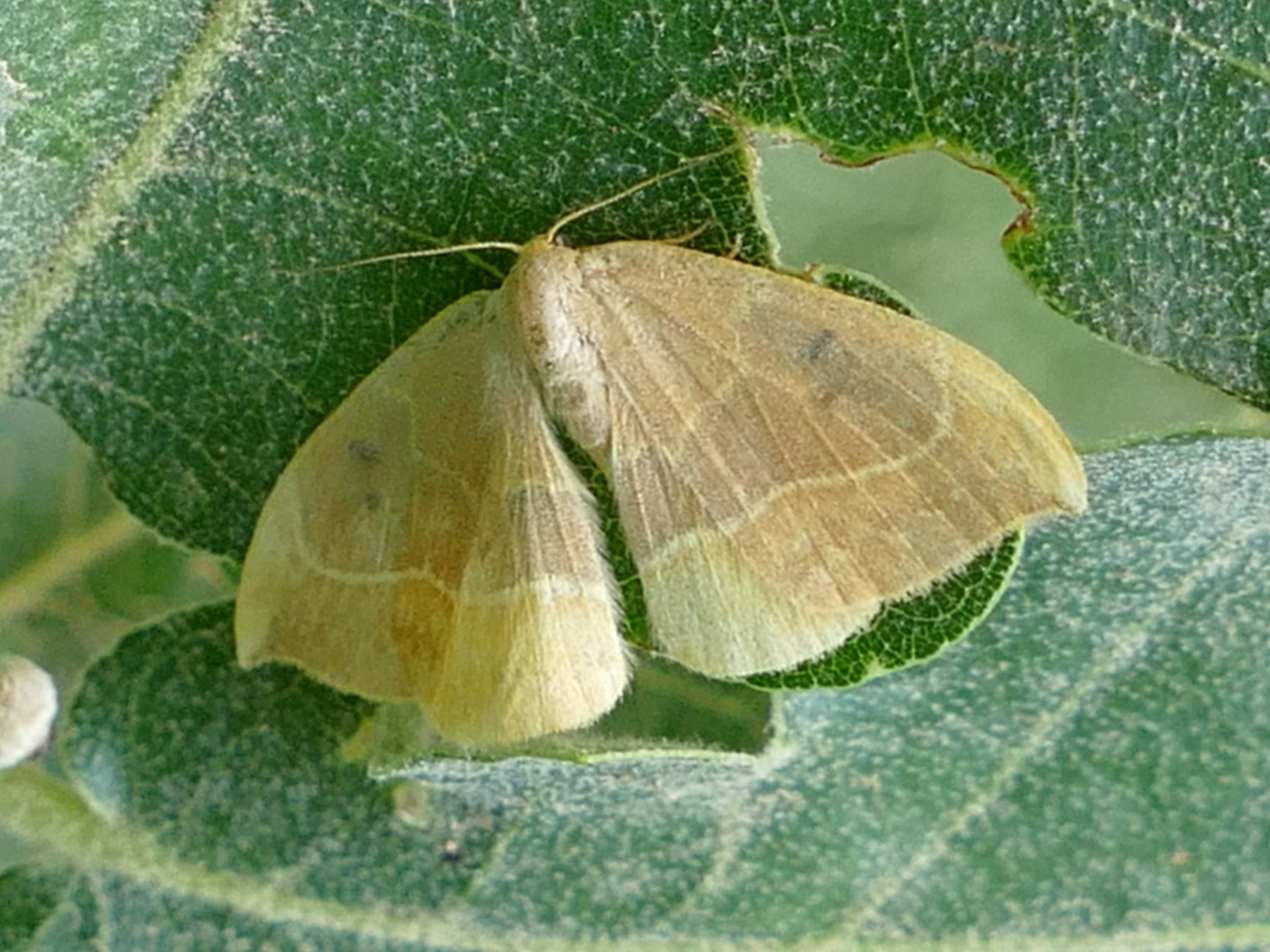 Watsonalla uncinula, Lake Kournas (λίμνη κουρνά) , Crete